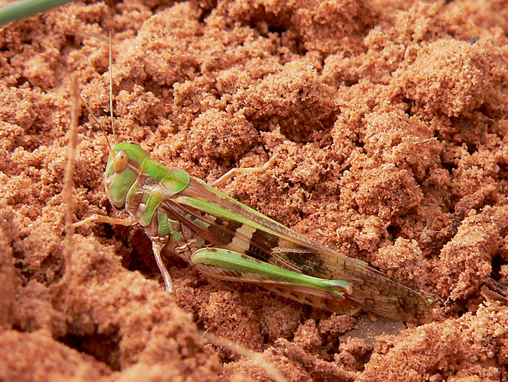 Male Oedaleus senegalensis along road Niamey - Ouallam, Niger.